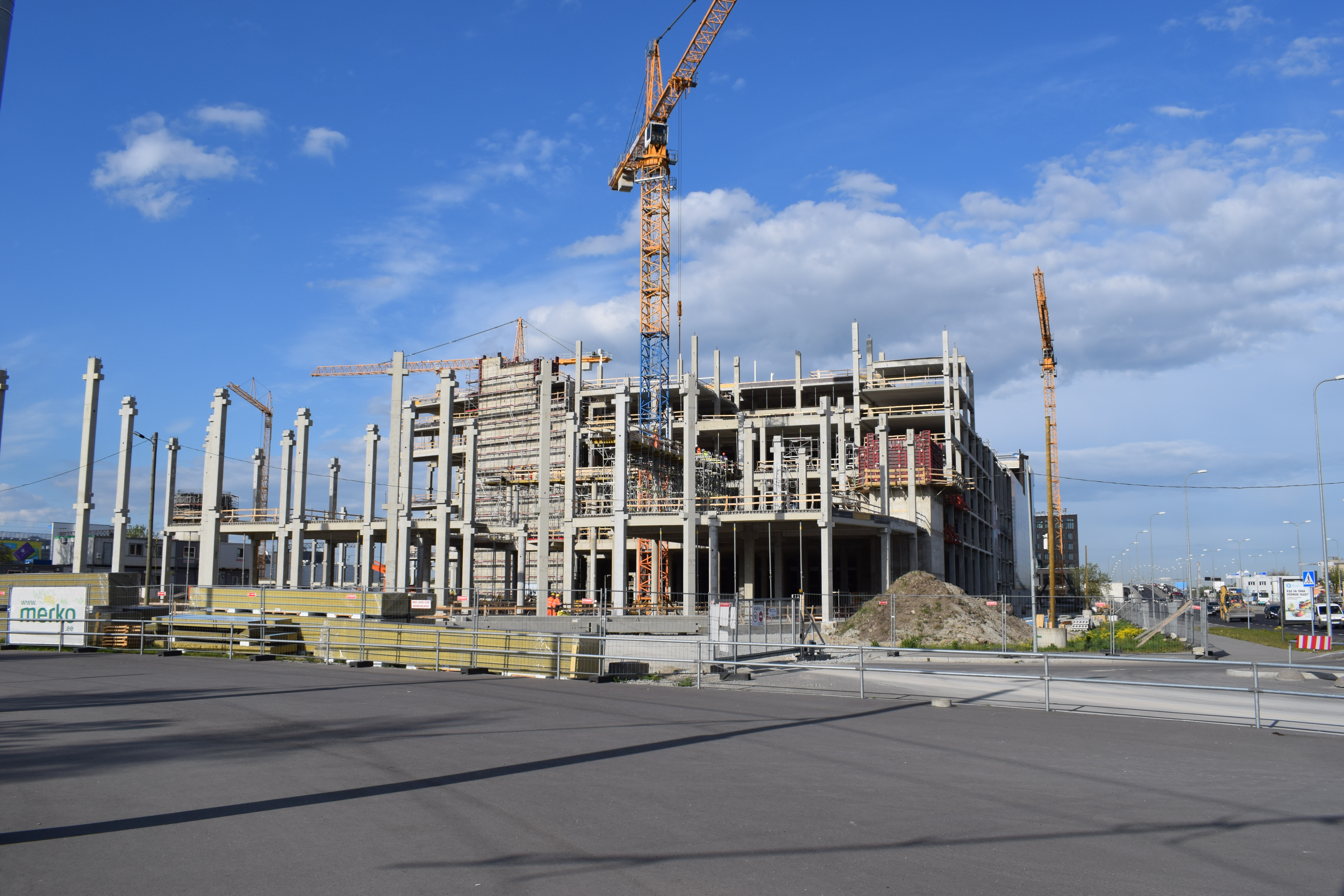 T1 Shopping Centre